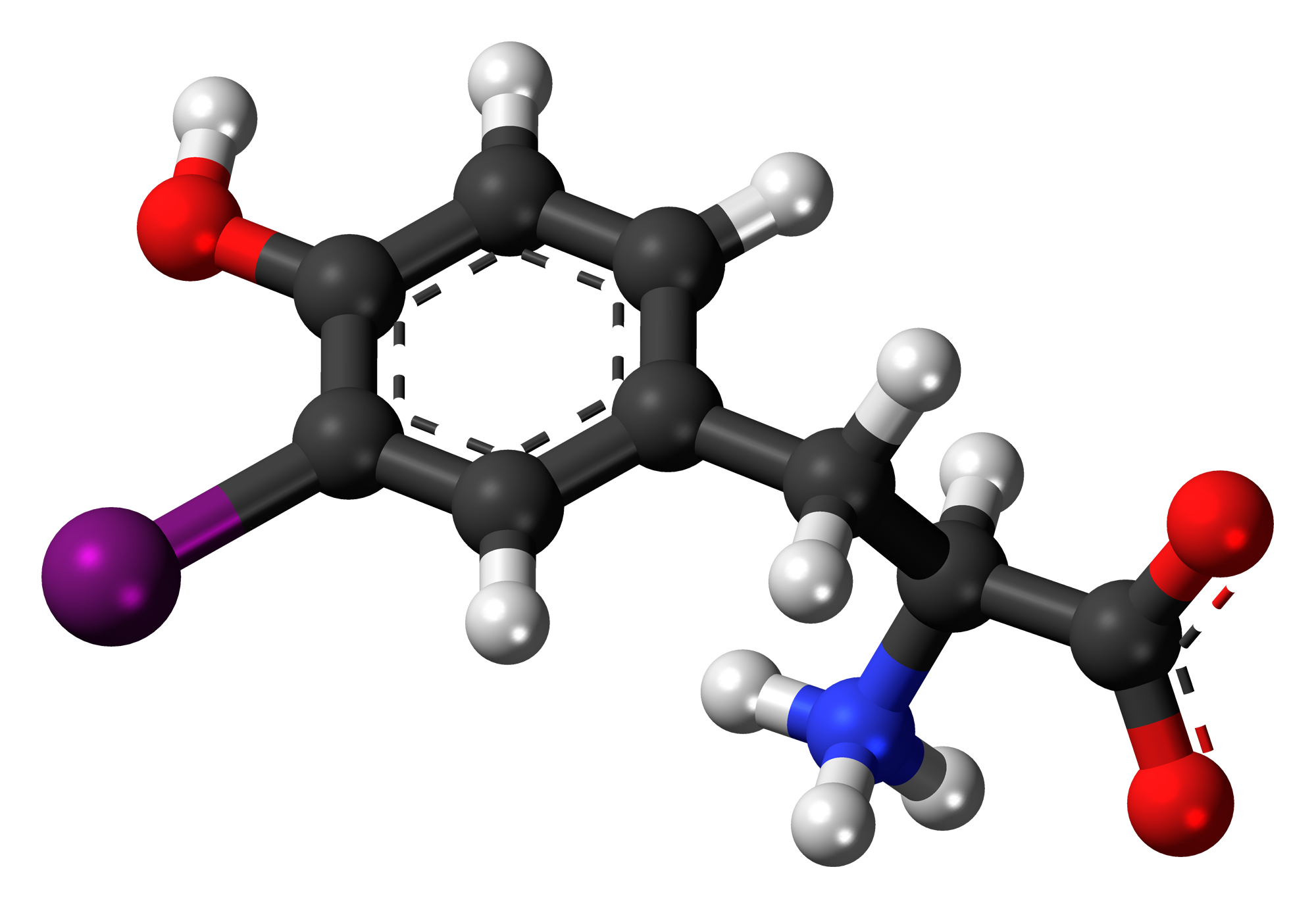 Ball-and-stick model of the 3-Iodotyrosine molecule. This image shows the zwitterion. Colour code: Carbon, C: black Hydrogen, H: white Oxygen, O: red Nitrogen, N: blue Iodine, I: purple